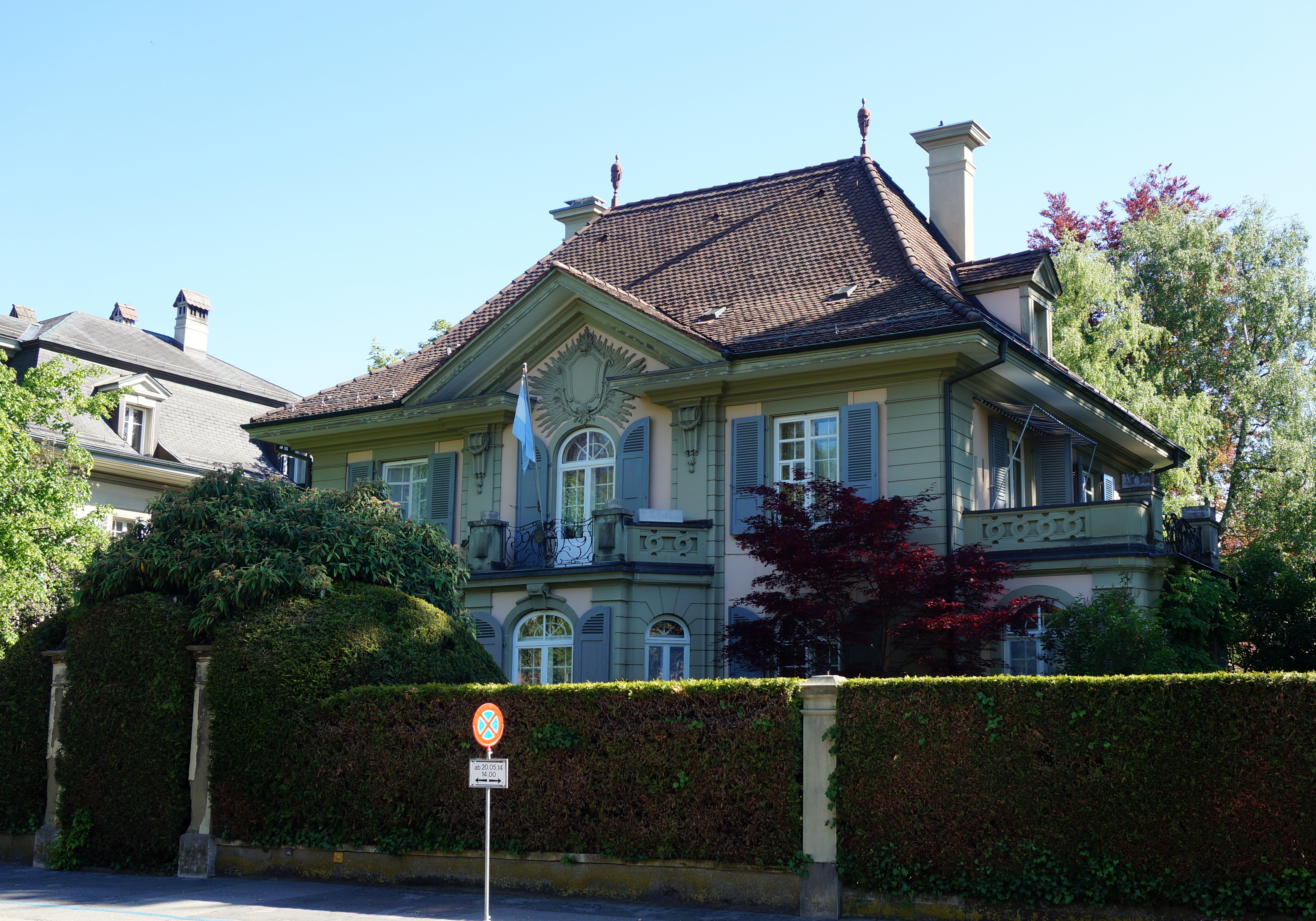 Bern, Elfenaustrasse 5 Argentinian Embassy in Switzerland, Residence.